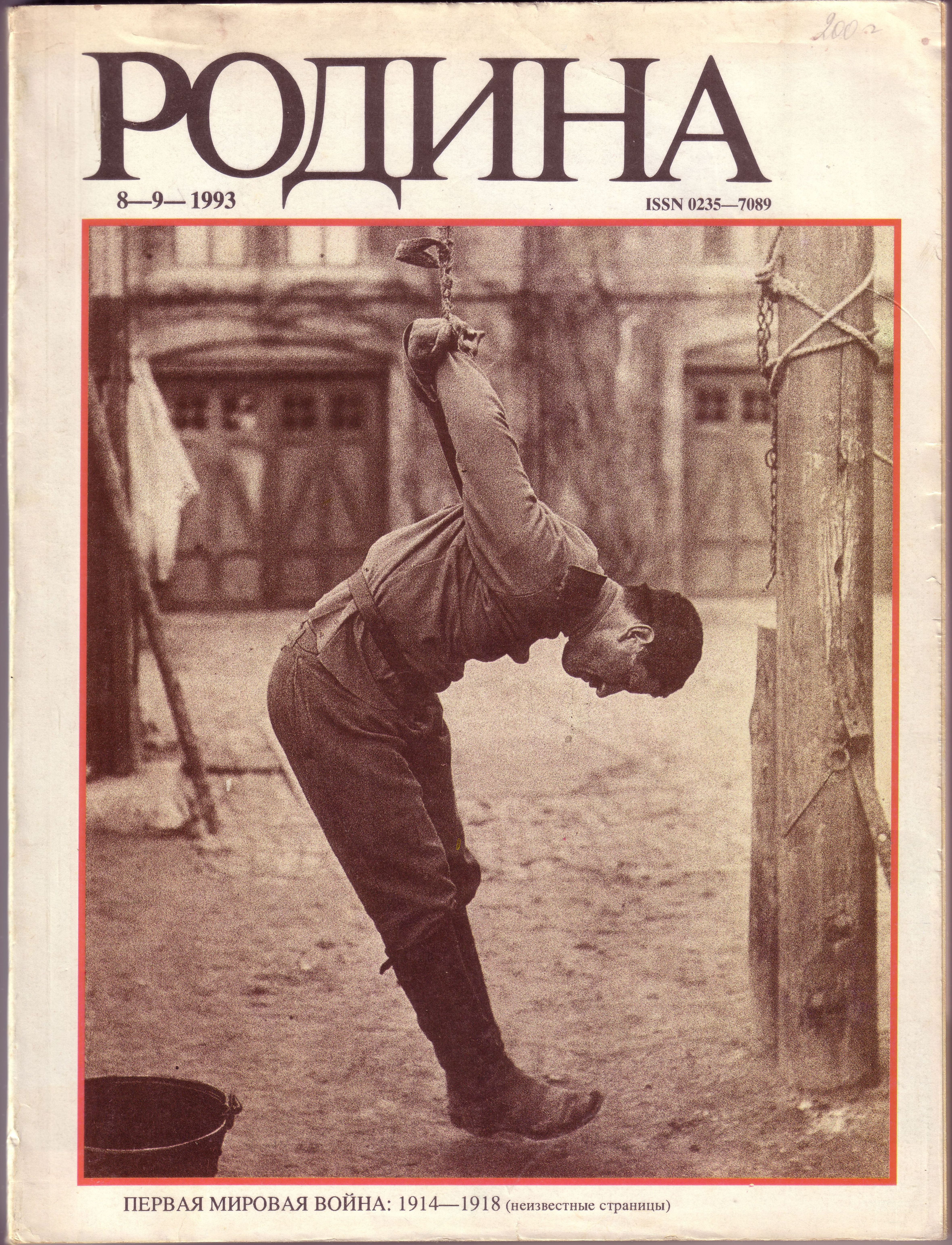 Russian POW of World War I in Germany. 1915 or 1916. "Rodina" magazine.